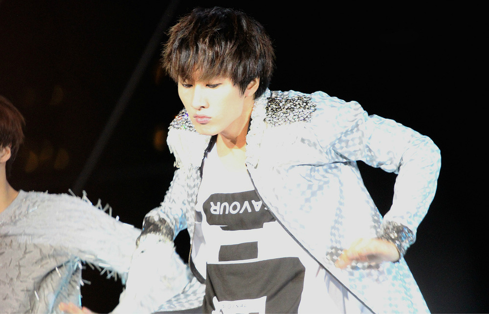 Eunhyuk during the SMTOWN Live World Tour III in Singapore